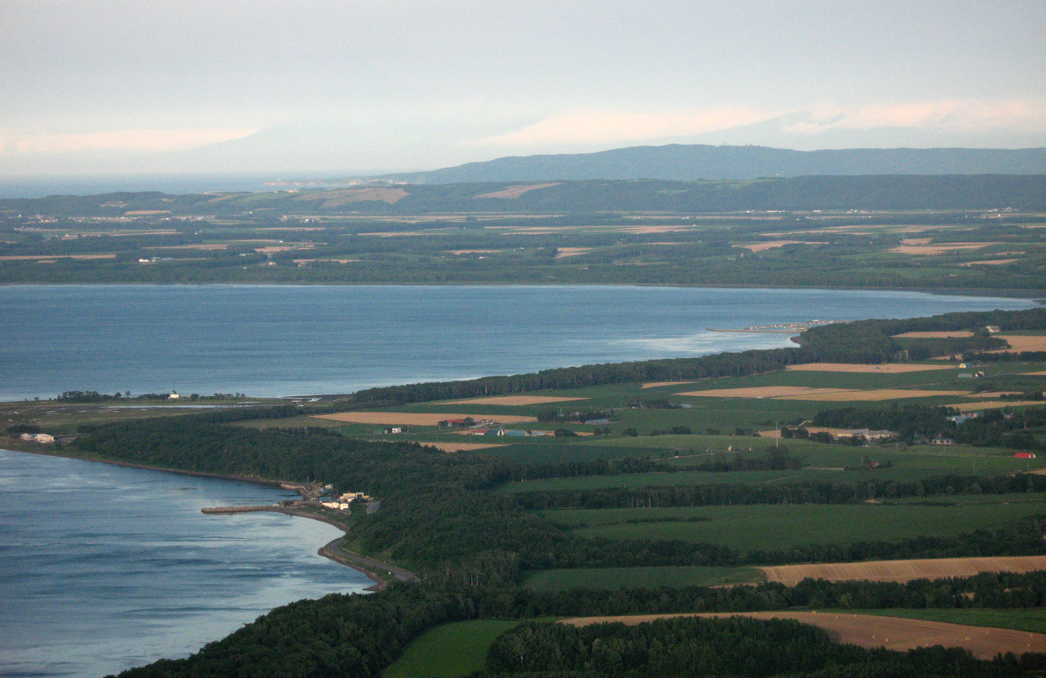 A view of Saroma Town looking east from Mt. Horoiwa. Lake Saroma and farmland spread out below, blending into neighboring Tokoro Town, and further, Mt. Shari and the Shiretoko Peninsula.